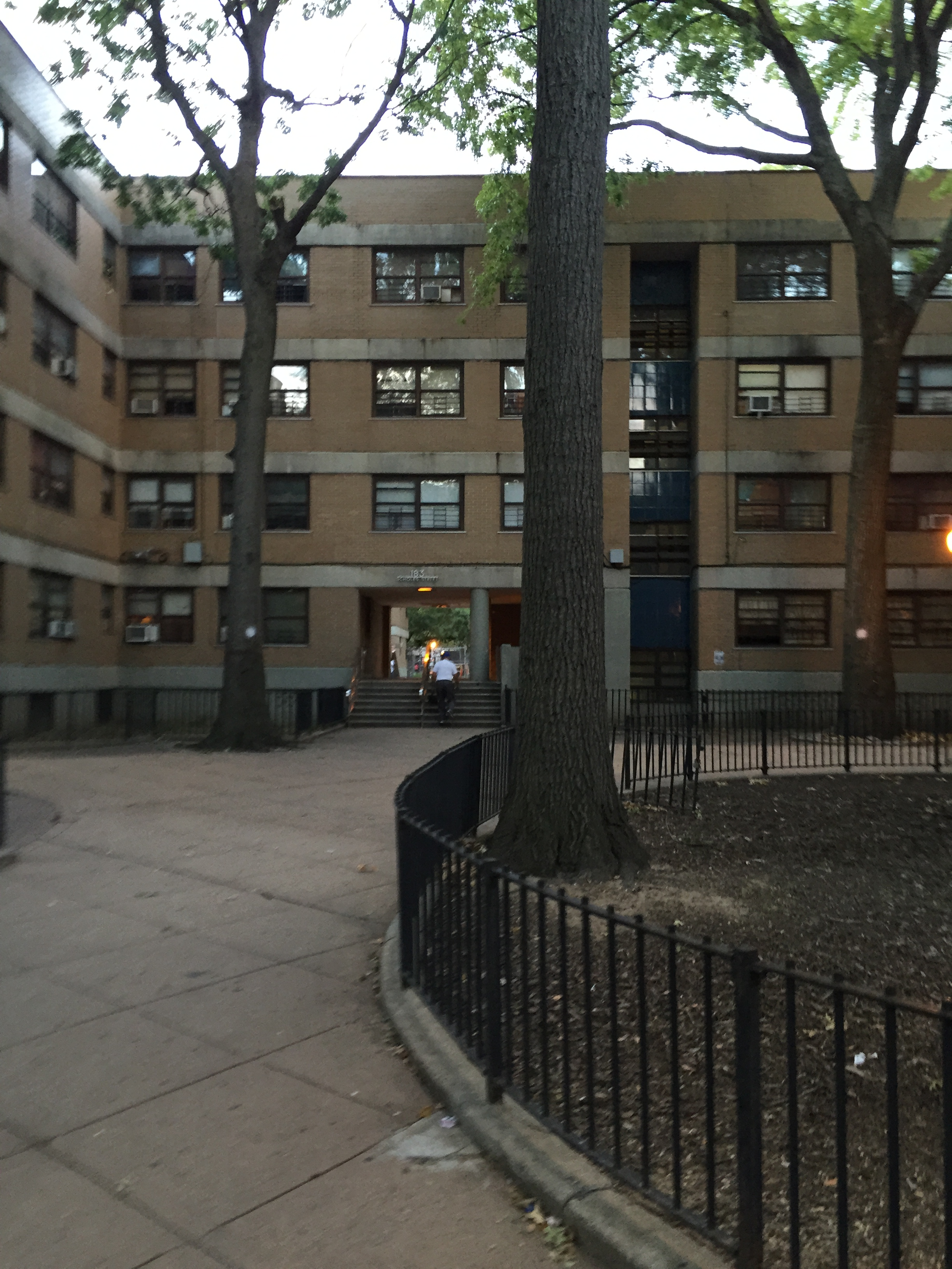 This is Williamsburg Houses around Scholes and Humboldt Streets